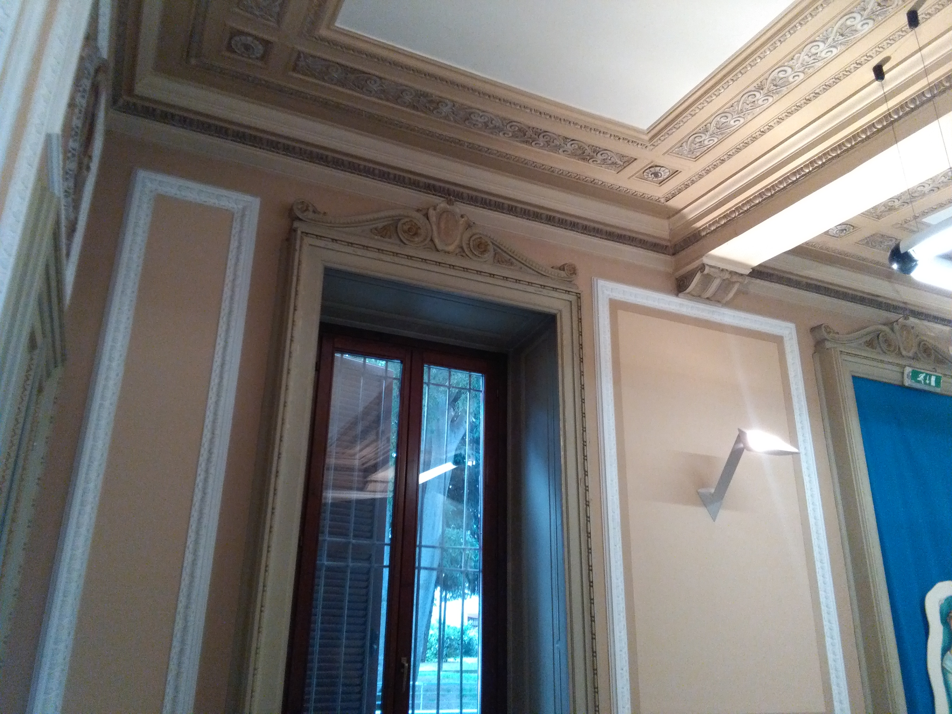 Lissone_VillaMagatti_Salone